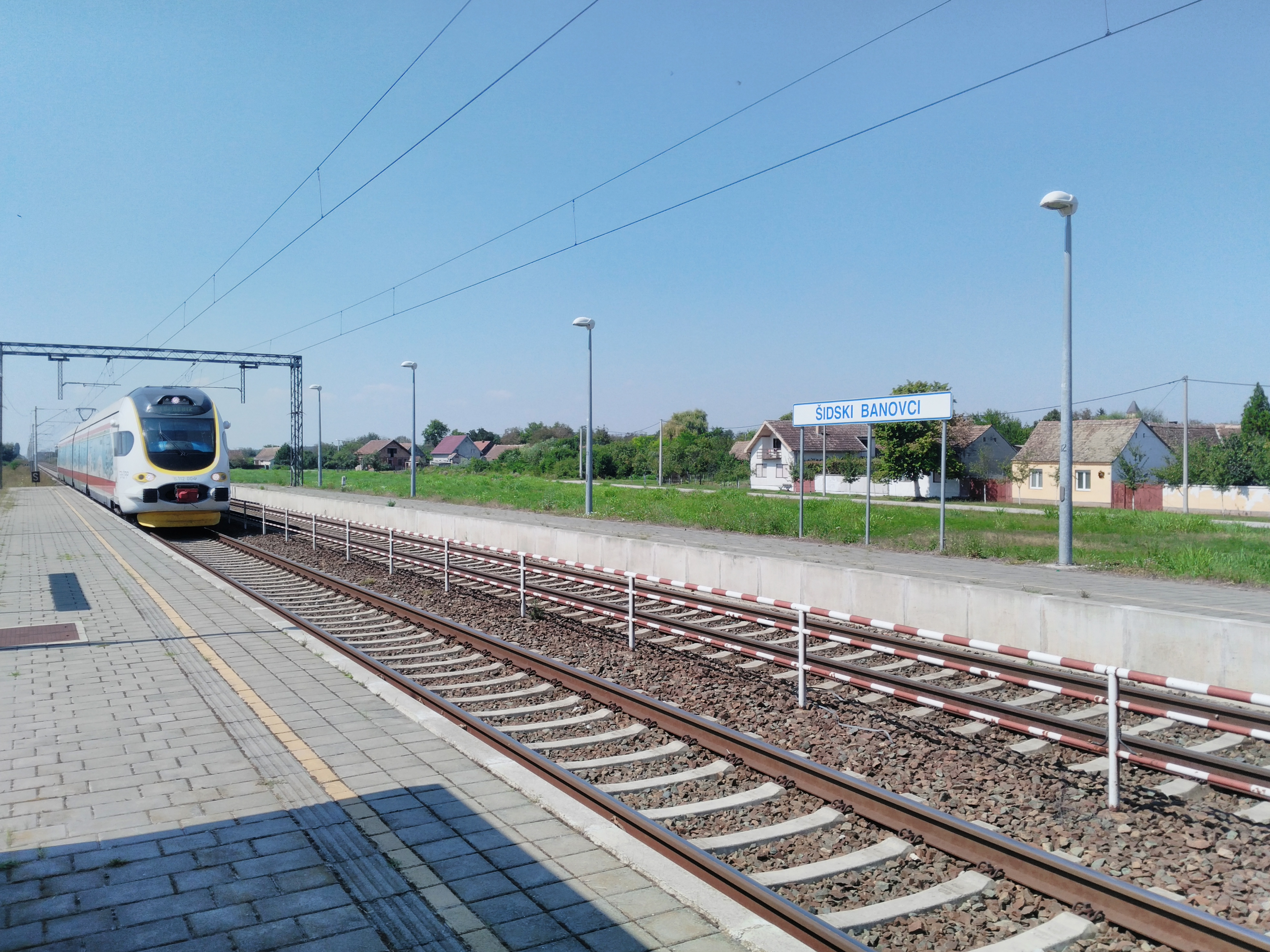 Train Station in Šidski Banovci.